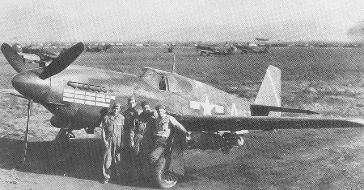 86th Fighter Group A-36 Apache in North Africa (USAF)